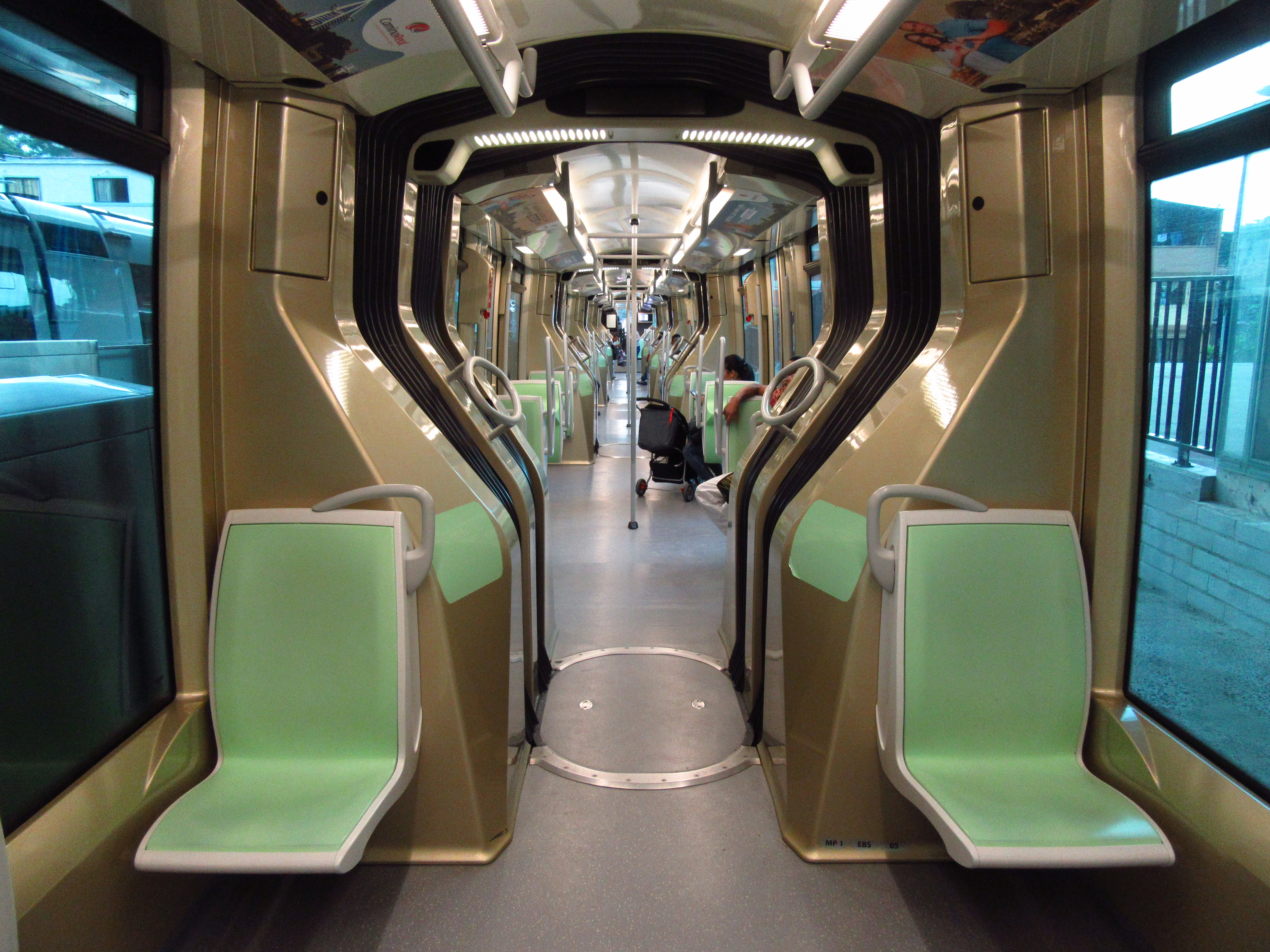 Medellín